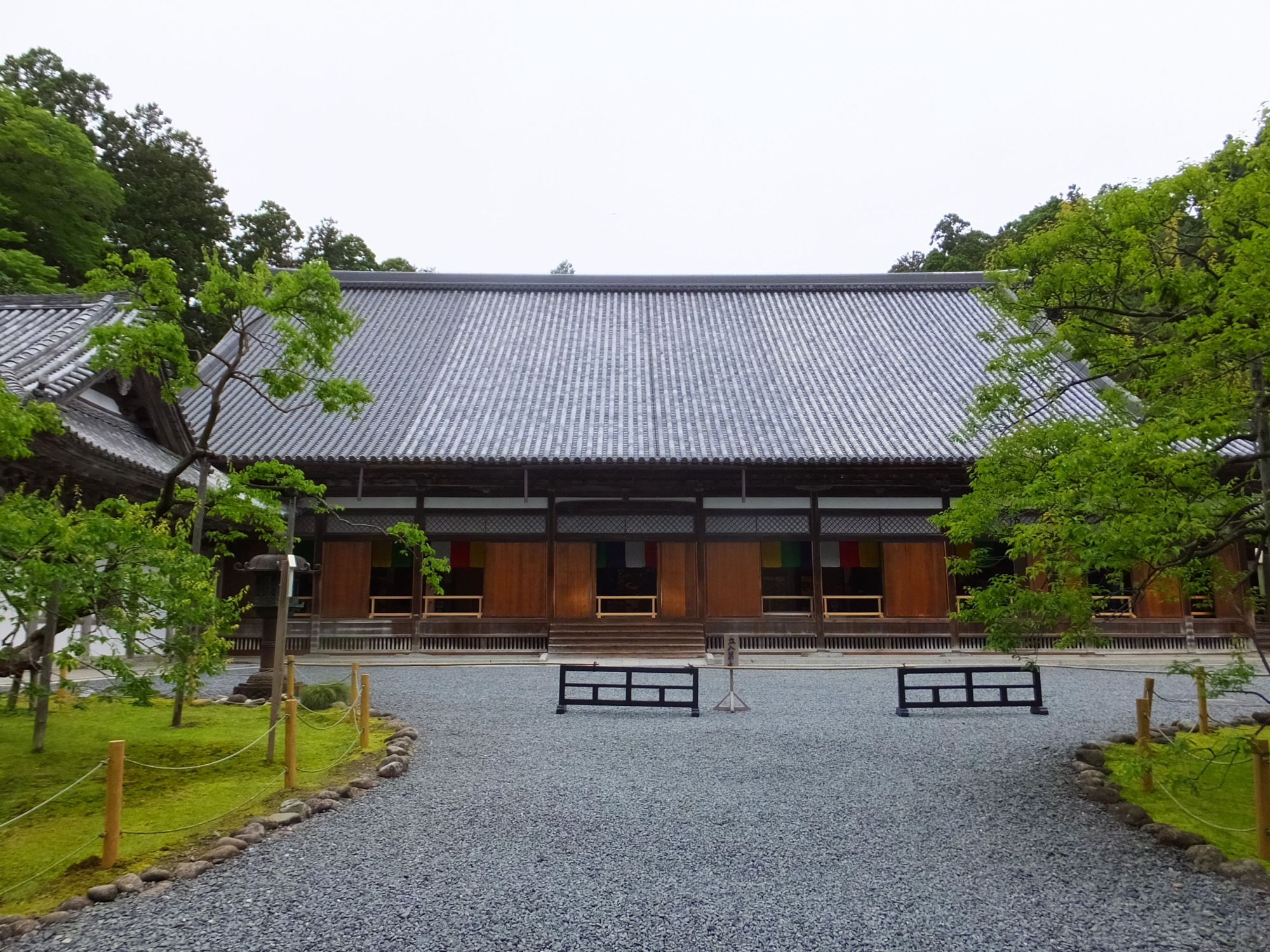 Main hall of Zuigan-ji temple in Matsushima, Miyagi Prefecture